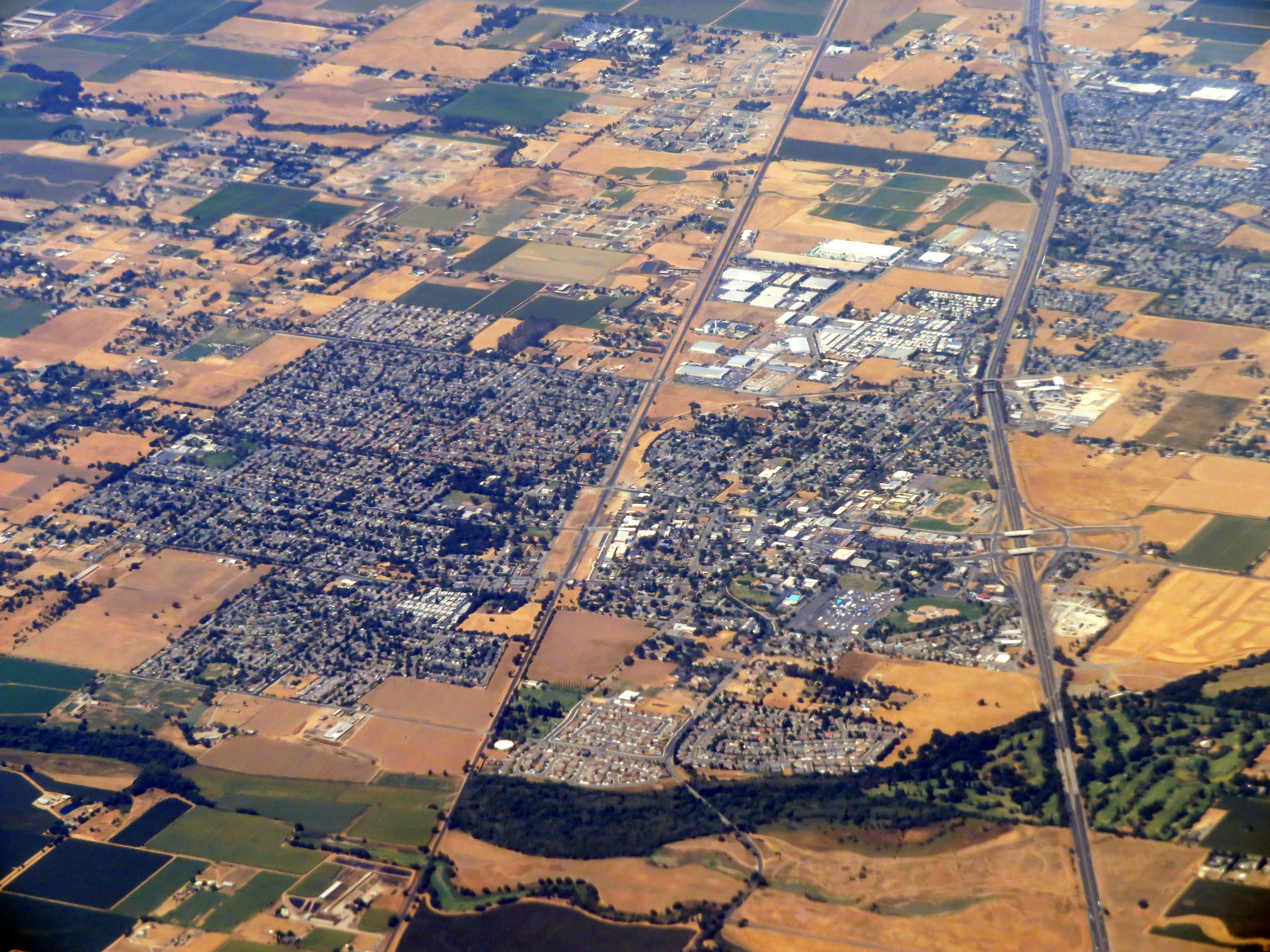 Aerial view of Galt, California in August 2018. The Union Pacific (ex-Southern Pacific) Fresno Subdivision runs through the center, with the former Amador Branch faintly visible. Highway 99 is at right.